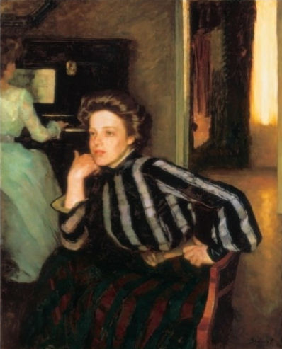 Adagio: a tempo marking indicating that music is to be played slowly